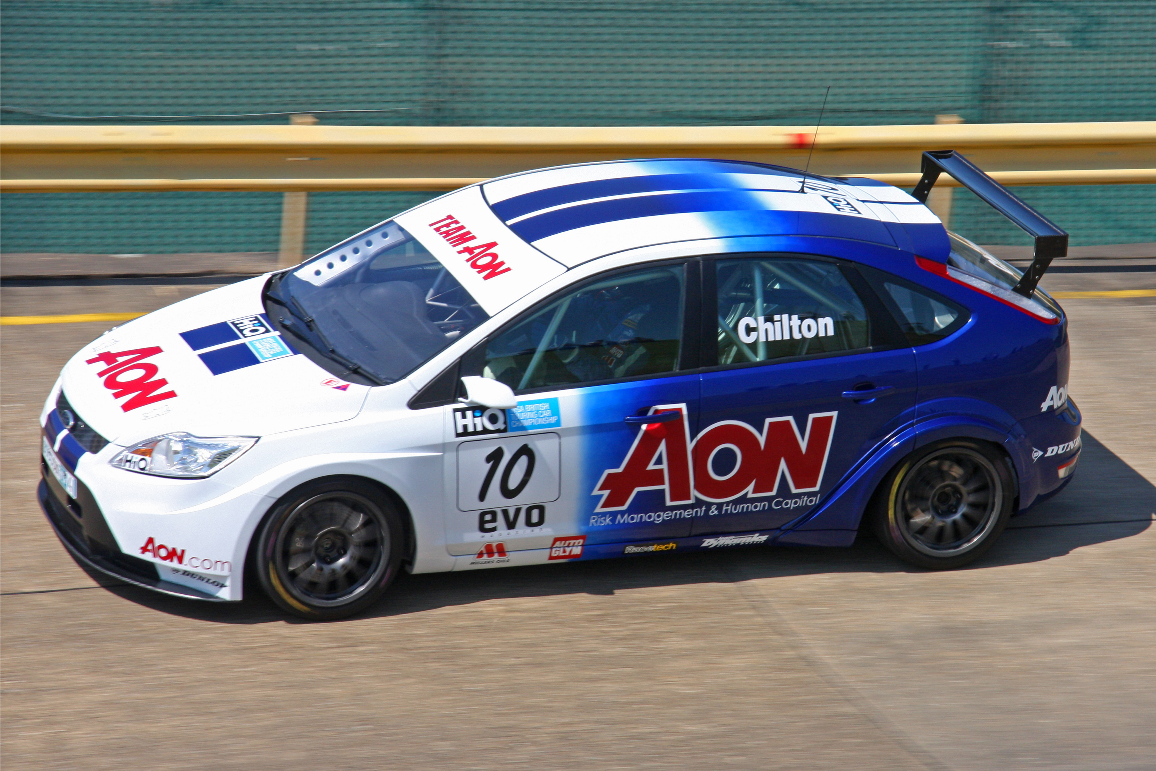 Tom Chilton driving his Ford Focus ST at Dunton Vehicle Enthusiasts Day.